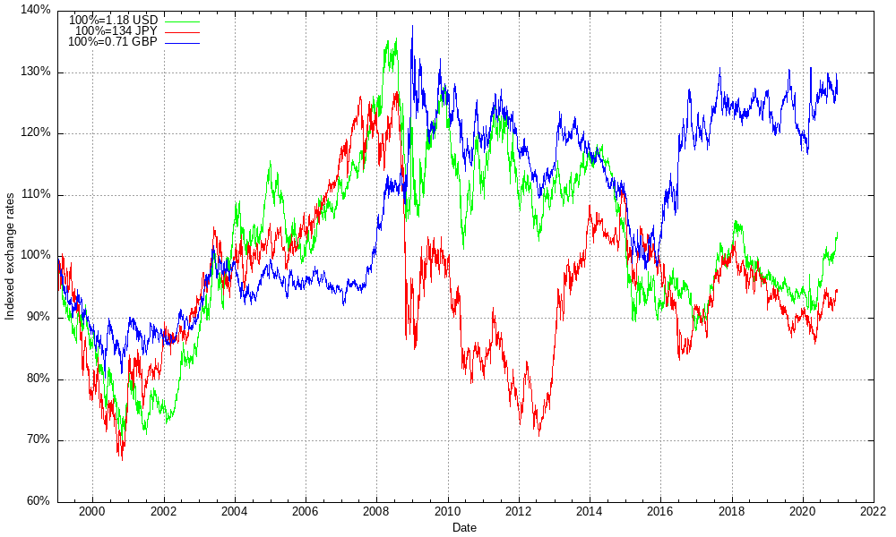 Exchange rate evolution of the euro compared to USD, JPY and GBP. Exchange rate on 1.January 1999 is put to 100%. Green: in Jan-1999: €1 = $1.18 Red: in Jan-1999: €1 = ¥133 Blue: in Jan-1999: €1 = £0.71